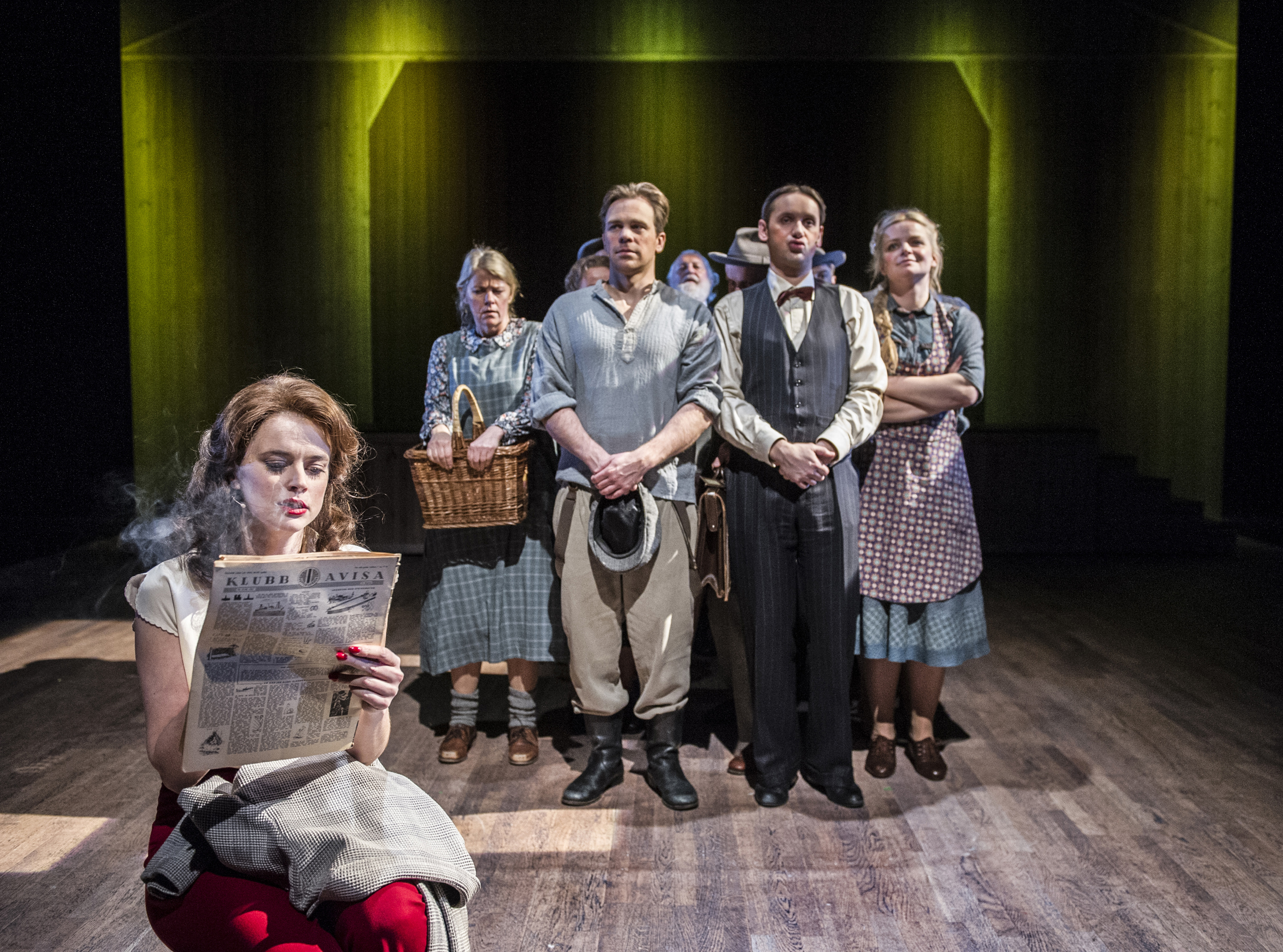 From the 2014 stage version at Det Norske Teatret of Alf Prøysen's musical Trost i taklampa. Charlotte Frogner in the main role as Gunvor. In the group: Hilde Olausson, Sigurd Myhre, Jan Martin Johnsen, Kikki Stormo.